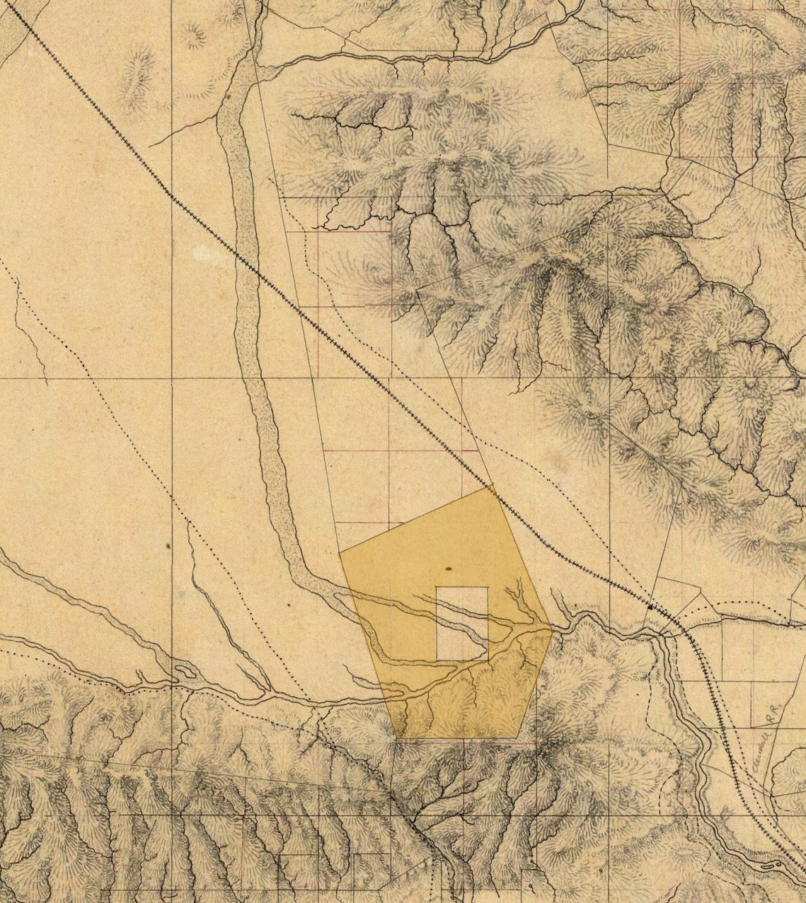 Detail of the southeastern San Fernando Valley, from a manuscript map of Los Angeles and San Bernardino topography, 1880, by William Hammond Hall, Office of the State Engineer, California. The map shows the Rancho Cahuenga inholding within Rancho Providencia (tinted area) — in the present day city of Burbank and the Toluca Lake neighborhood.